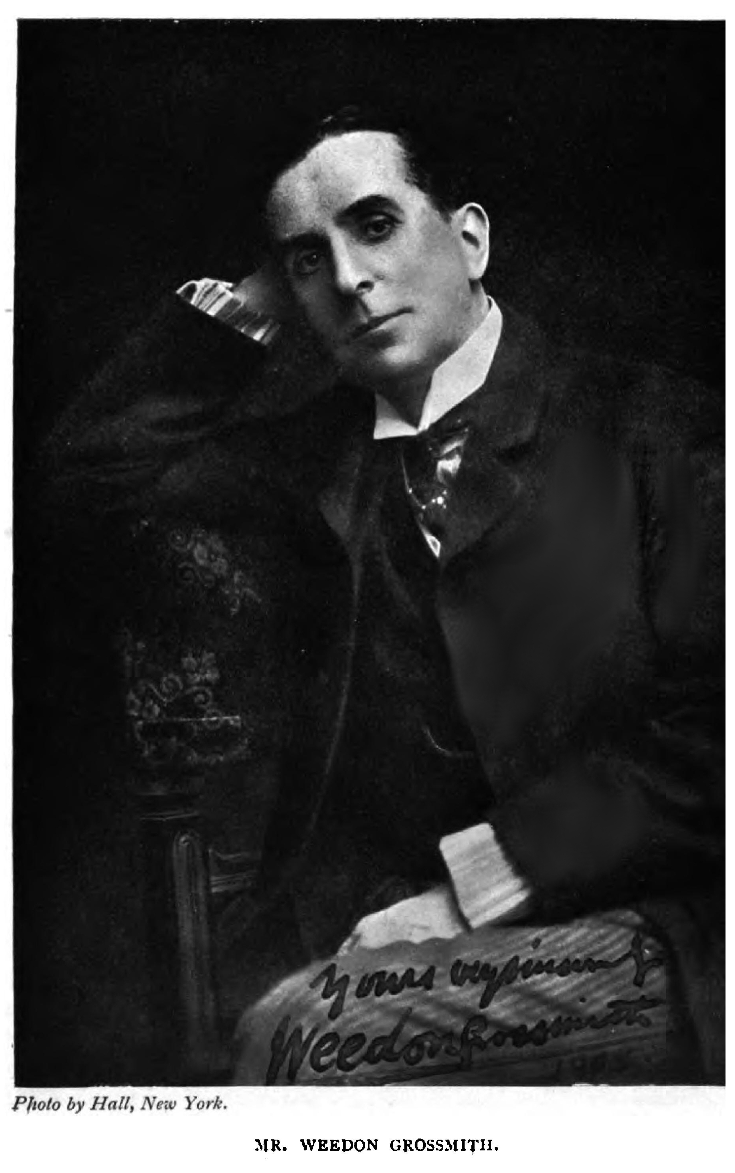 Walter Weedon Grossmith (9 June 1854 – 14 June 1919), better known as Weedon Grossmith, was an English writer, painter, actor and playwright.